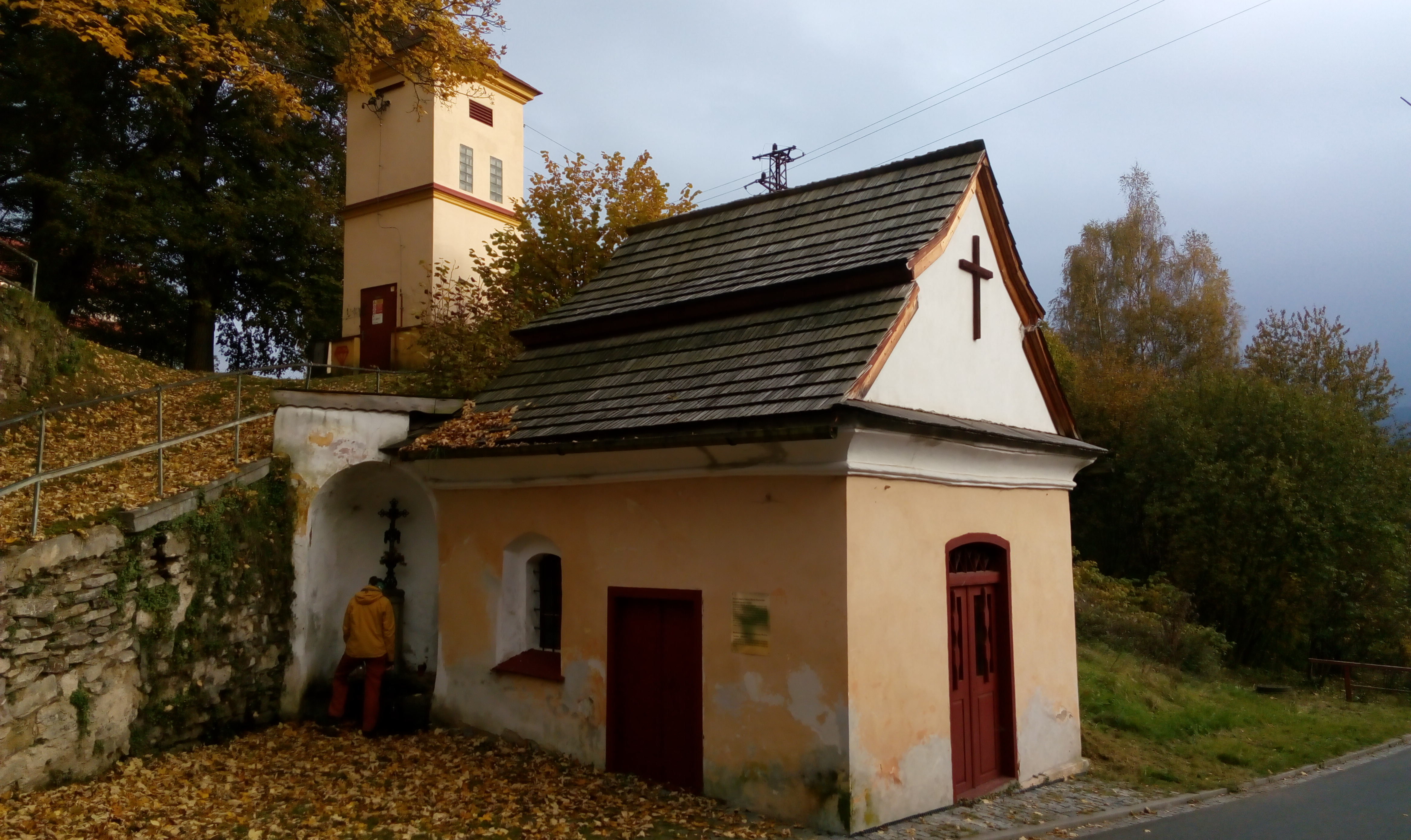 Kašperské Hory, pilgrimage chapel of Mary of Klatovy - Grantl. On the left side a miracle spring. Out of the picture to the left is the pilgrimage church of Our Lady of Snows, built as an expansion of the pilgrimage site.